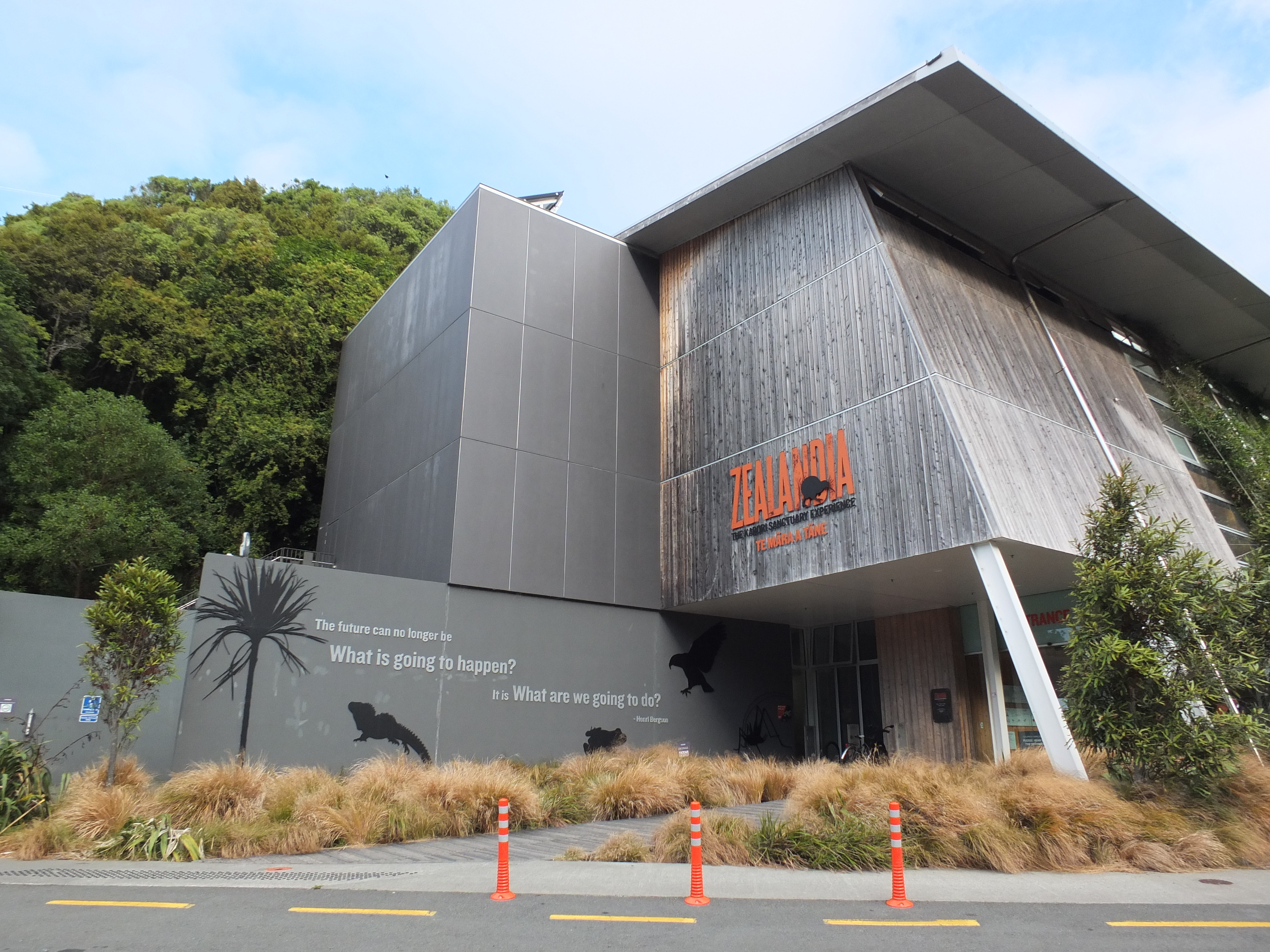 The Zealandia Visitor Centre, end of Waiapu Road, Wellington